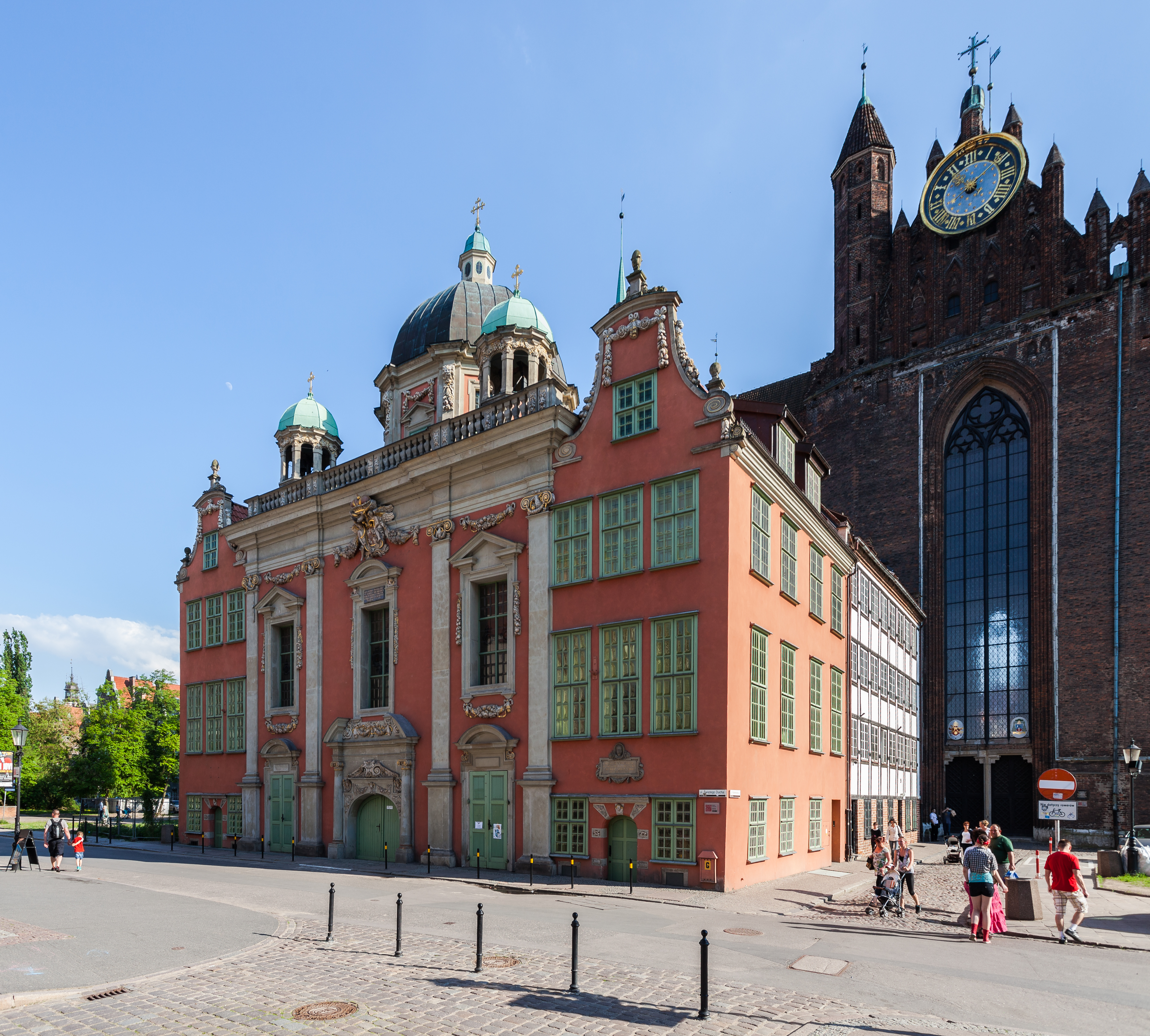 Royal Chapel, Gdansk, Poland